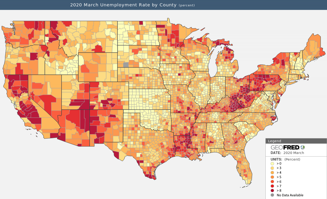 Unemployment by county in the United States